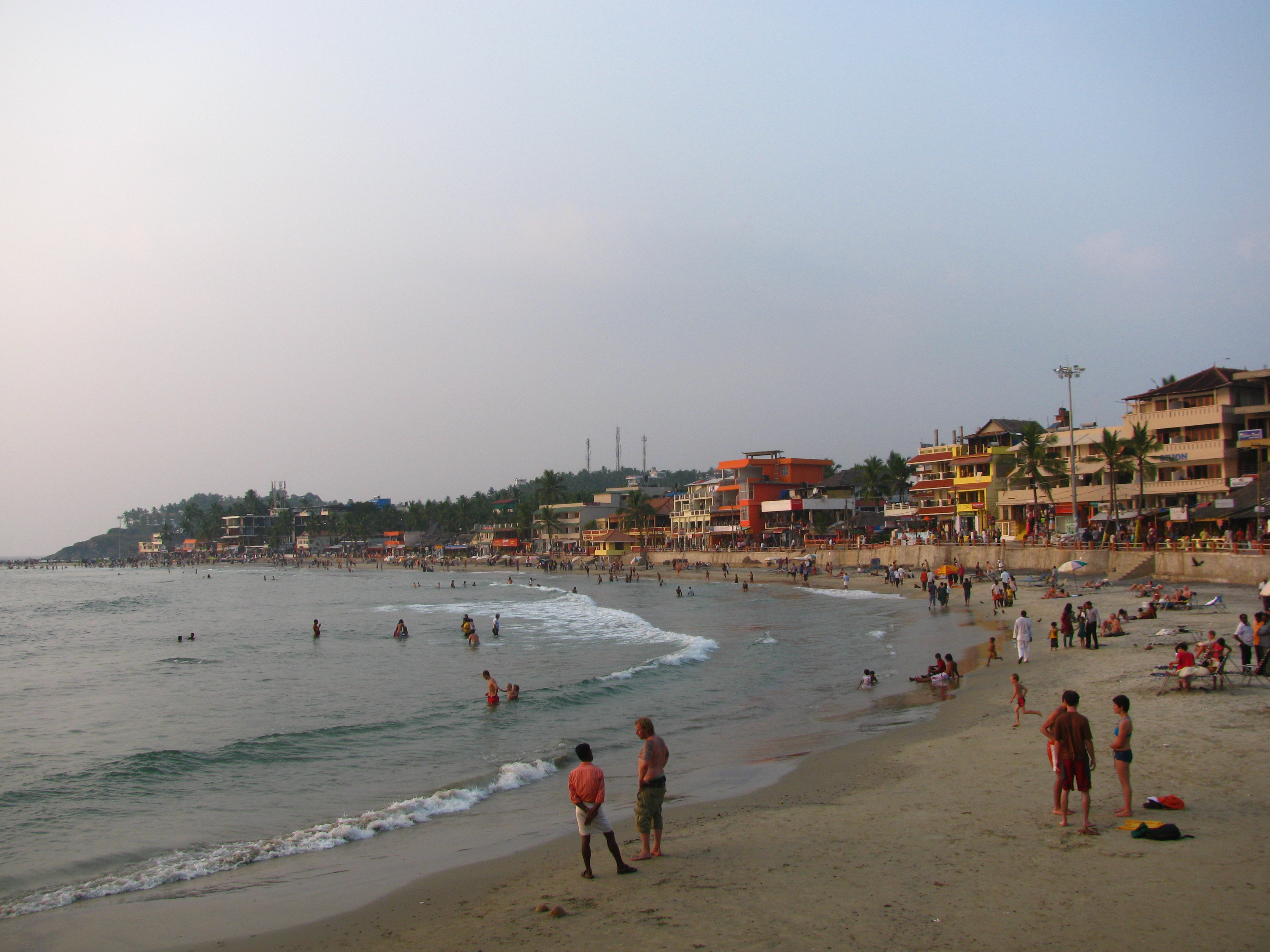 View of Kovalam beach